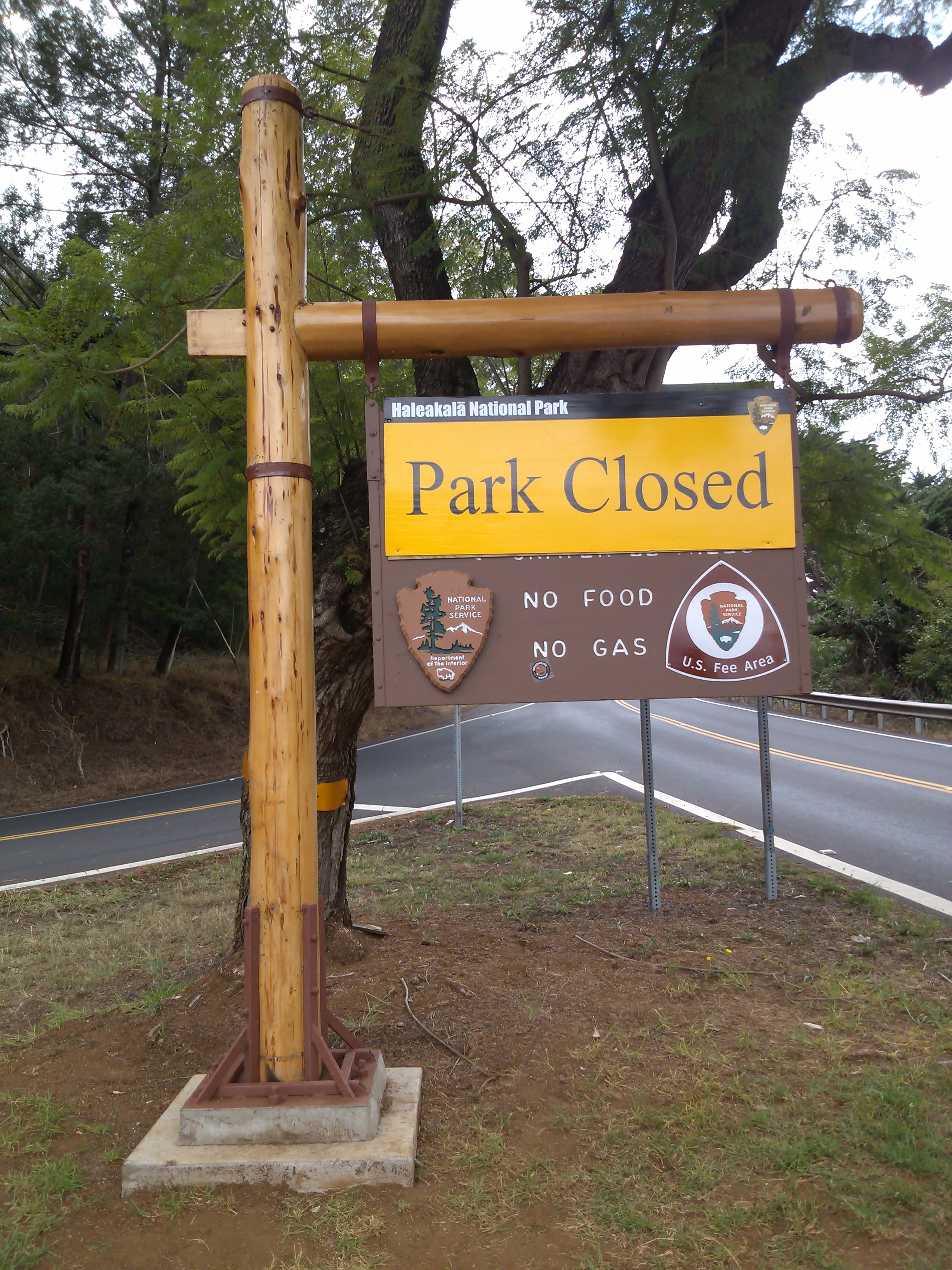 The sign to Haleakalā National Park at the junction of Haleakalā Highway (behind photographers position)/Crater Road (to the left of the picture)/Kekaulike Avenue (behind sign) with a PARK CLOSED sign over it.